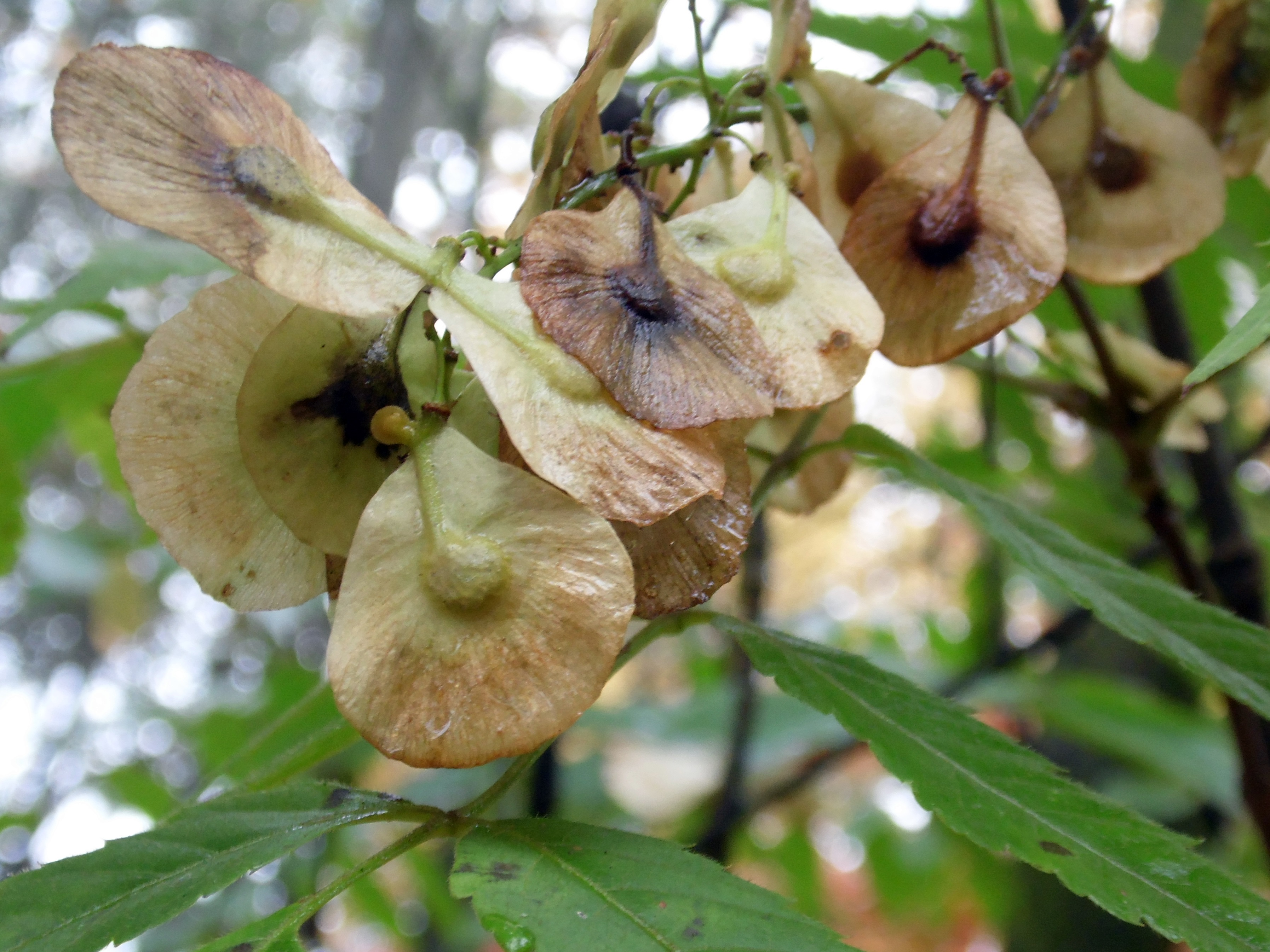 Dipteronia sinensis. Arboretum in Glinna near Szczecin, NW Poland